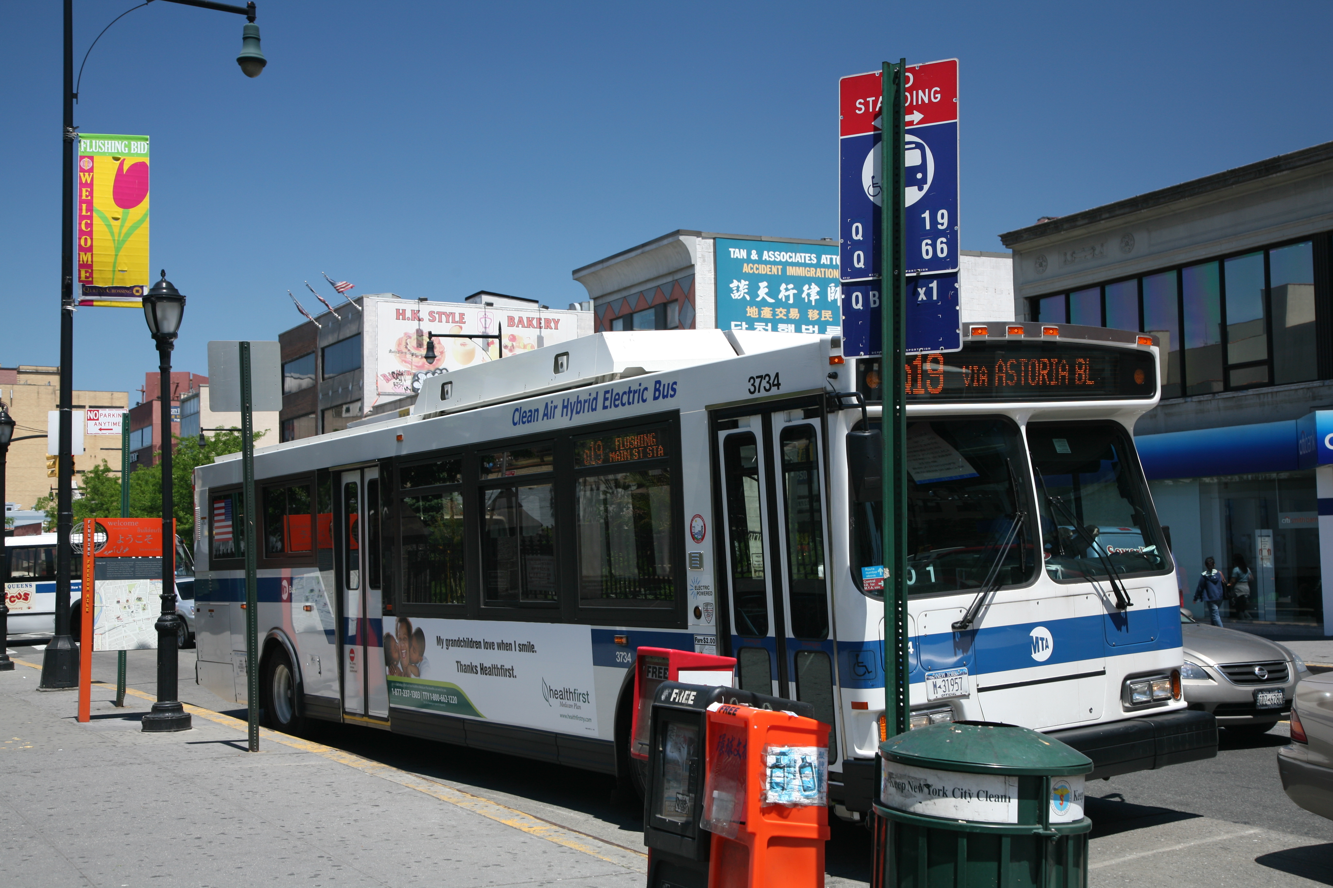 Q19 line MTA bus, New York City.